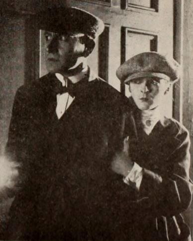 Still from the American mystery film The Silk-Lined Burglar (1919) with Sam de Grasse and Priscilla Dean, on page 25 of the April 5, 1919 Exhibitors Herald.